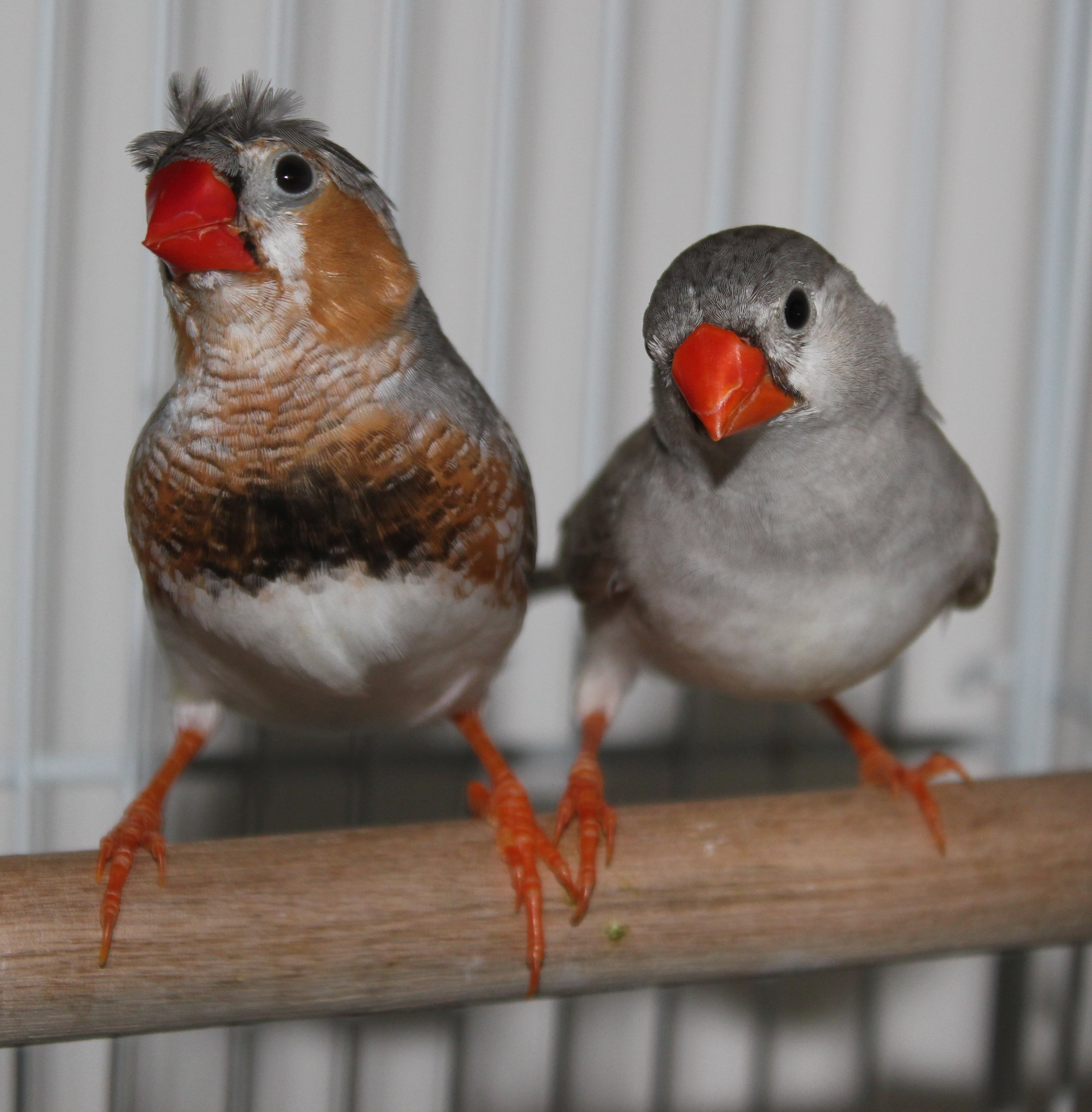 Left: Crested Lightback/Orange Breast Black Breast Male Right: Lightback Black Breasted Hen